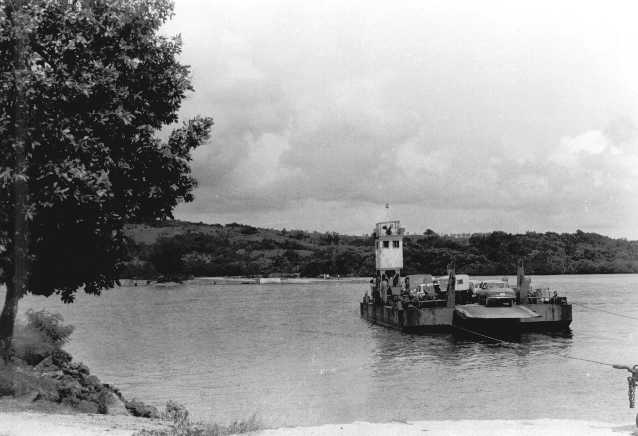 Palau ferry crossing channel between Koror and Babeldaob